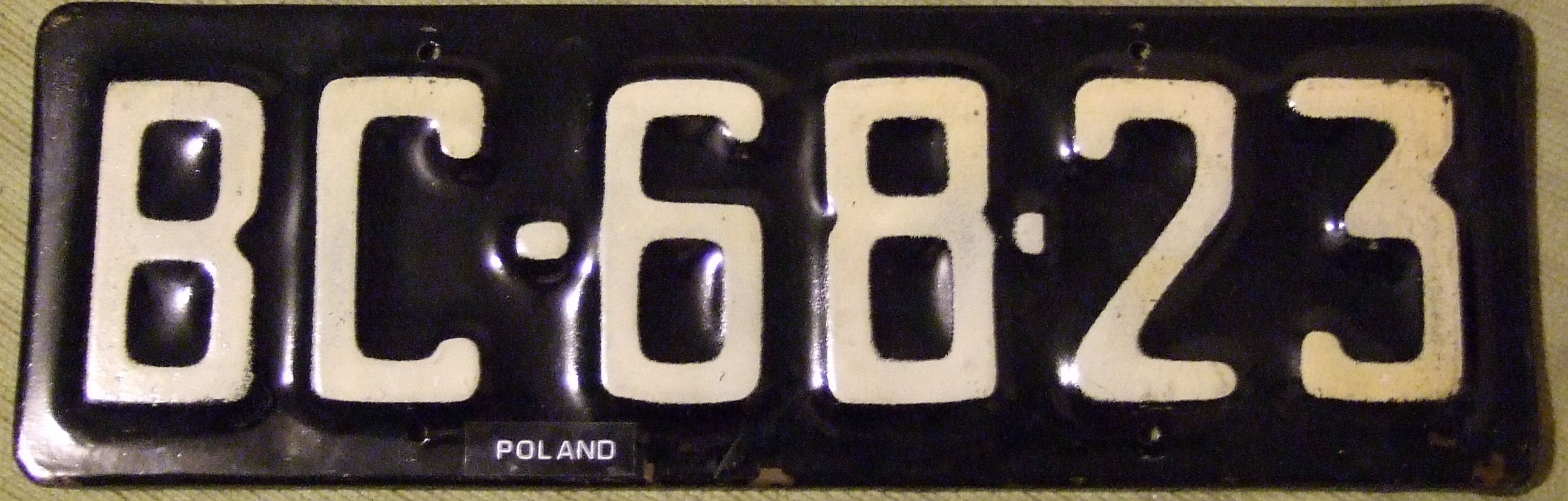 Wz. 1958 vehicle license plate issued in Bydgoszcz Voivodeship.